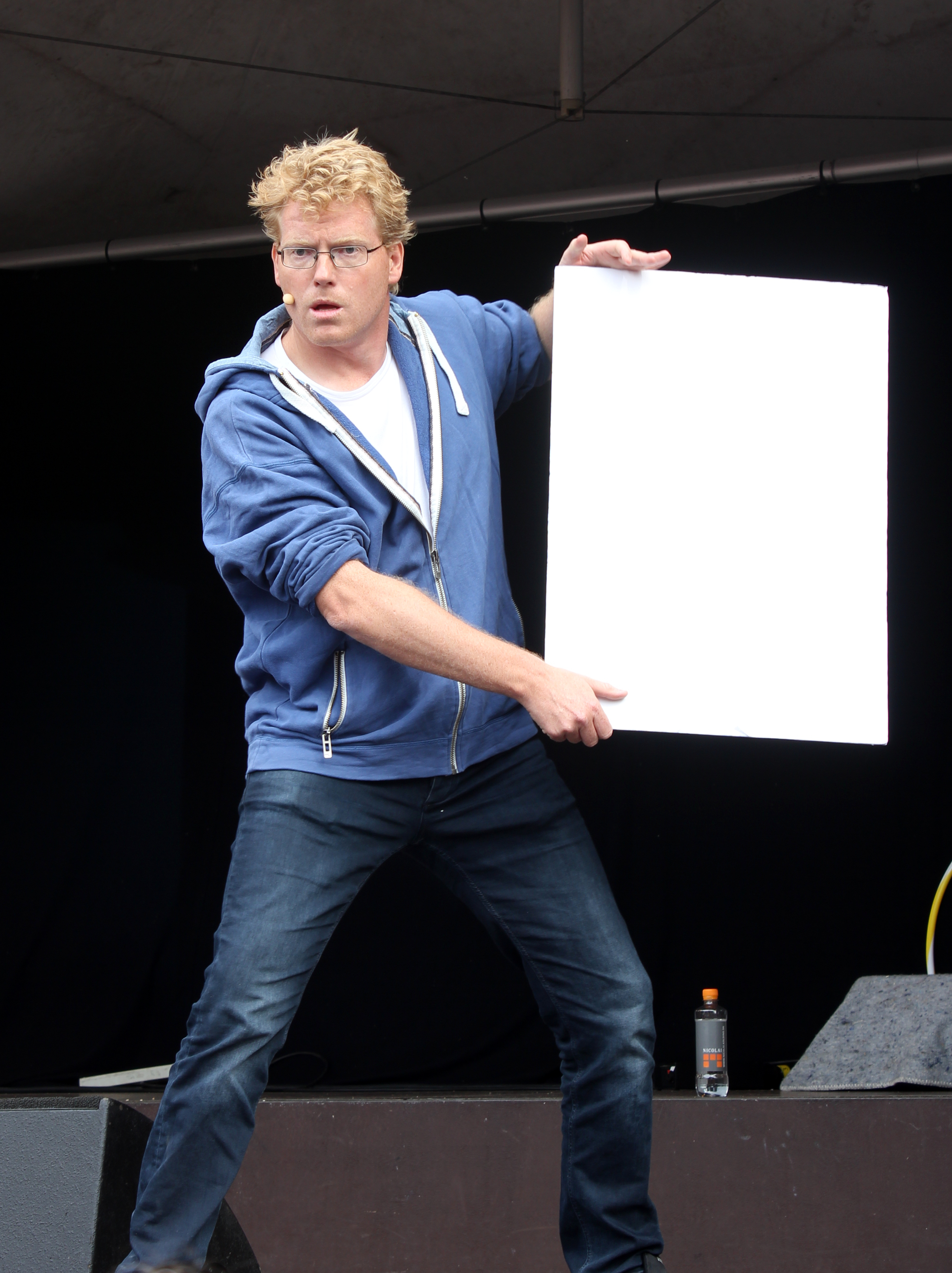 Sebastian Klein is a danish TV-host and performer. On the picture, he is performing in front of 300 kids at Kolding Kulturnat. (Culturenight in Kolding, Denmark) 2014.